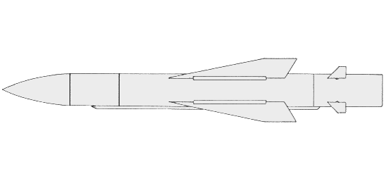 Profile of anti-ship missile AS34 Kormoran Profil du missile anti-navire AS34 Kormoran